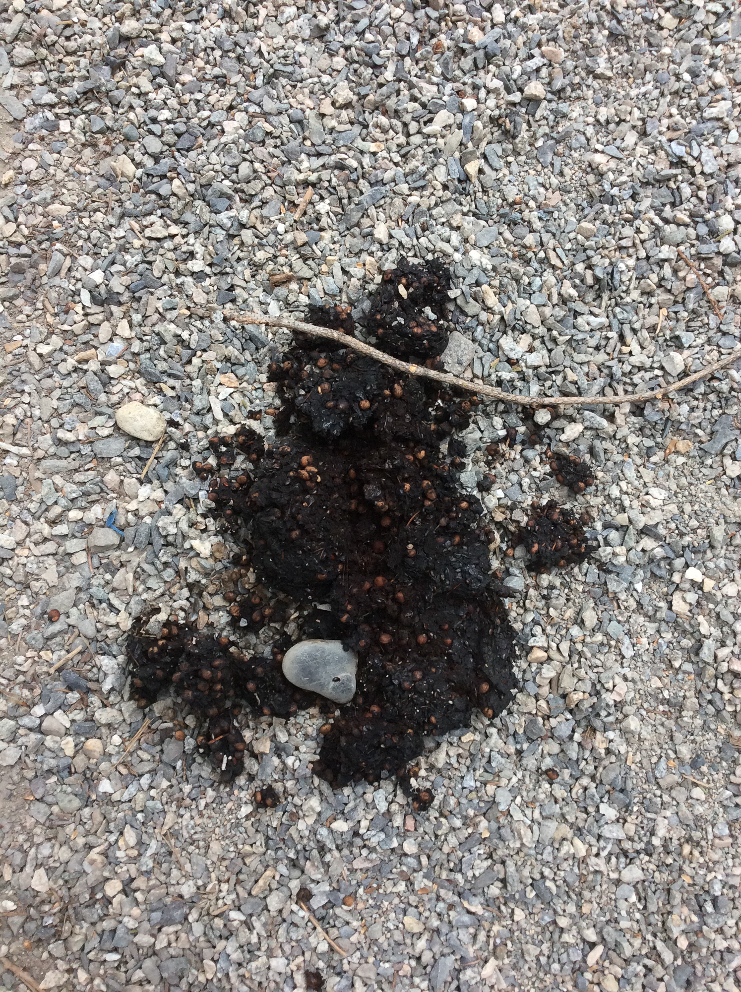 as seen in Kelowna's Mission Park Scenic Hike